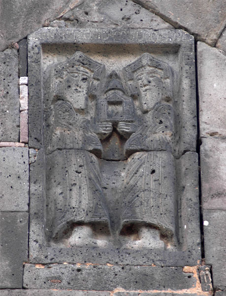 Sanahin monastery. All Saviors Church. Armenia